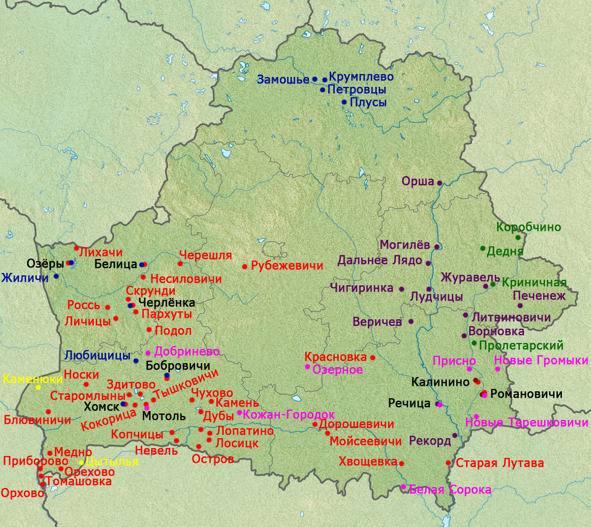 Mesolithic archeological sites in Belarus.